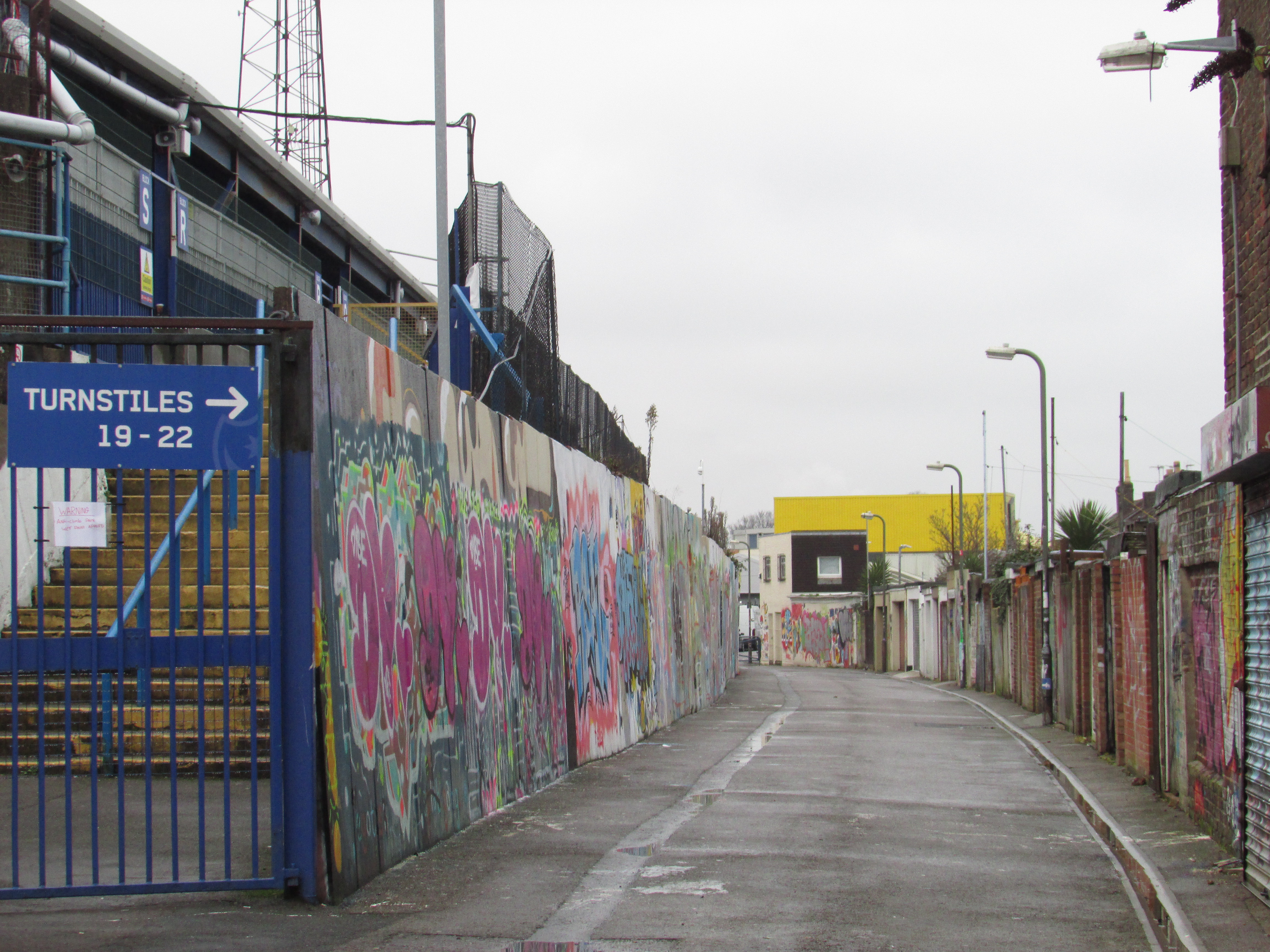 Looking north along Specks lane which runs along the back of the Milton End grandstand at Fratton Park the home of Portsmouth Football Club (nickname Pompey). Pompey boasts the most honours of any football club south of London, most notably Football League Champions in 1948-49 and 1949-50, and F.A.Cup Winners in 1939 and 2008. The football club is in the city of Portsmouth in the English county of Hampshire in England.